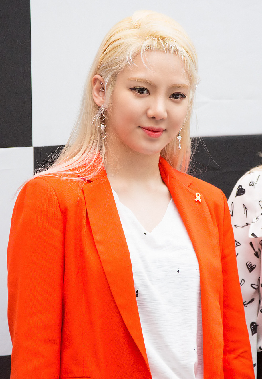 Kim Hyo-yeon at Starfield Hanam G-SHOCK fan signing on April 16, 2017.